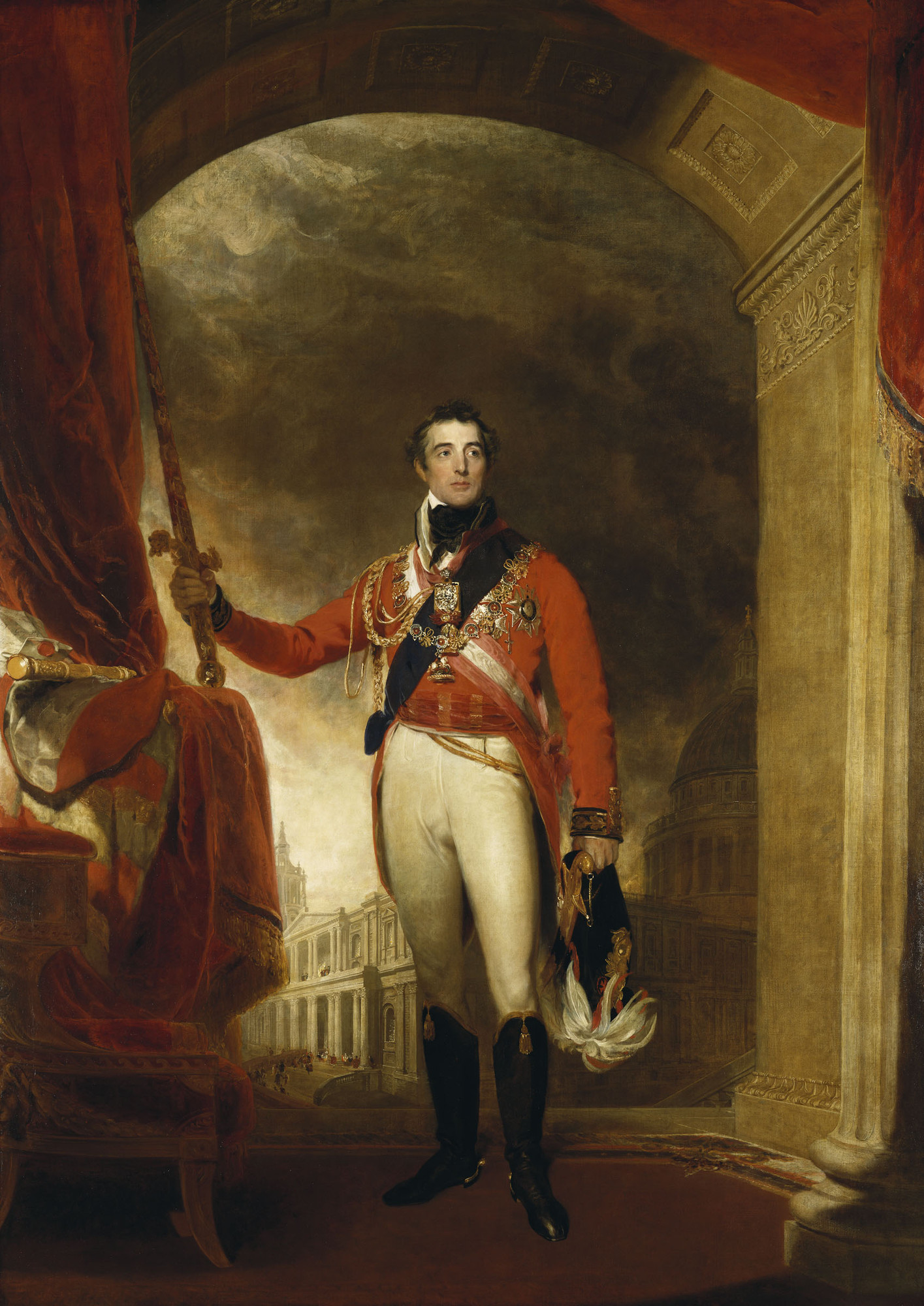 Caption from the museum's website This triumphant portrait of the Duke of Wellington dominates the Waterloo Chamber. Lawrence was specially commissioned by George IV to paint a pantheon of military heroes, diplomats and powerful heads of state responsible for the defeat of Napoleon initially in 1814 and ultimately (after his escape from Elba) at the Battle of Waterloo on 18 June 1815. These paintings were initially proposed for Carlton House, but George IV’s plans for Windsor Castle latterly came to include a new room specially created for the display of Lawrence’s portraits: the Waterloo Chamber. Lawrence’s composition is that of victory, heralding Wellington as the finest of military commanders and the ‘liberator of Europe’. Positioned under a Roman style triumphal arch, he grasps the Sword of State (symbolising the sovereigns royal authority) in his hand and holding it aloft in an heroic gesture. He wears Field Marshal’s uniform and his baton (a symbol of office) rests on a ledge beside a letter addressed to him and signed George P.R. signifying his promotion to Field Marshal and the gratitude of the Crown. This portrait was one of four commissioned in the summer of 1814 after the initial defeat of Napoleon: in the background we glimpse the procession leading to the (premature) thanksgiving service to celebrate that outcome, which took place at St Paul’s Cathedral on 7 July 1814. Retiring from an extremely successful military career Wellington entered politics, eventually becoming Prime Minister in 1828. He held a variety of prominent public roles and acted as mentor to Queen Victoria.